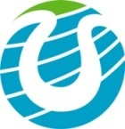 Hitachiomiya Ibaraki chapter